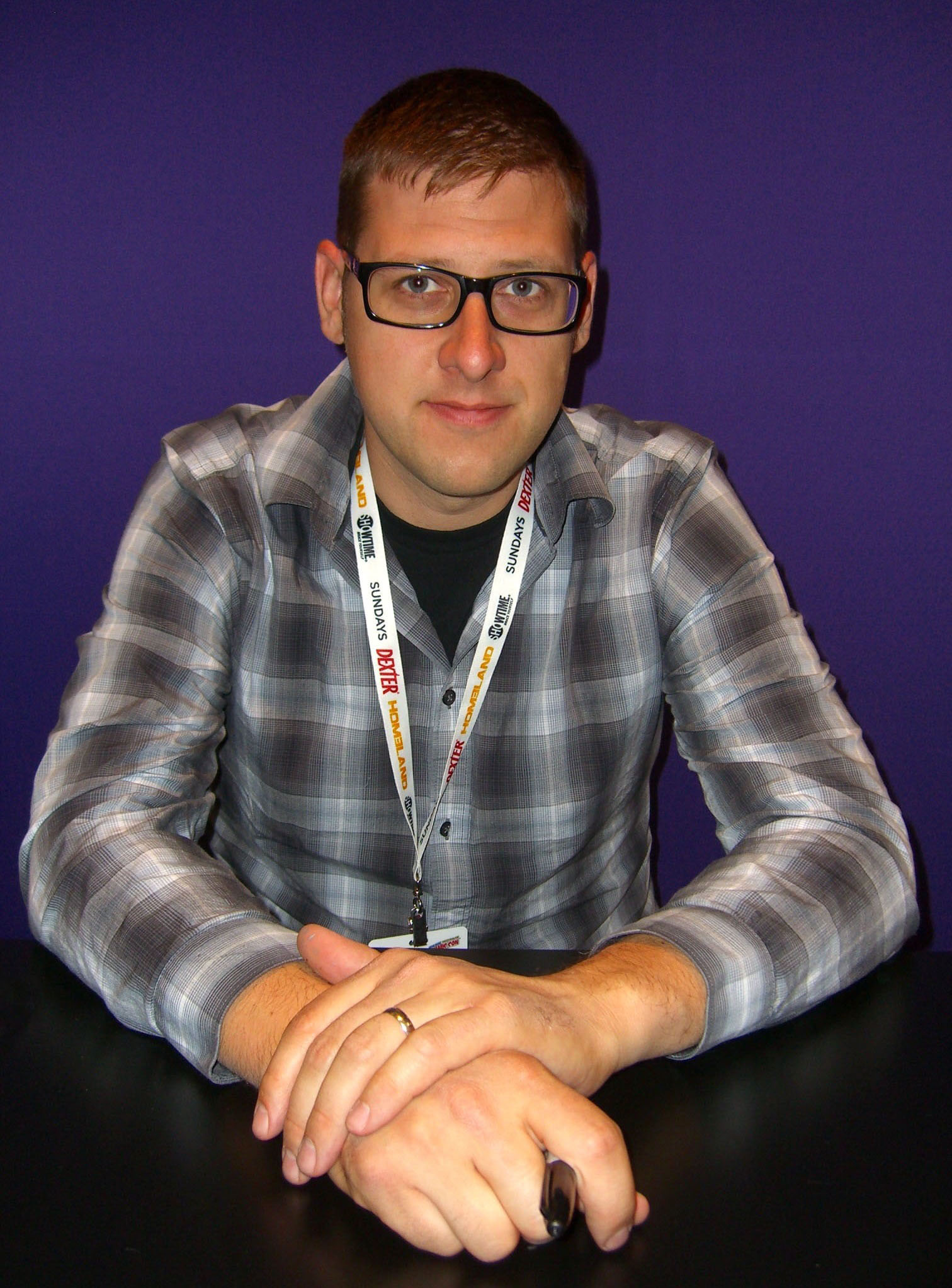 Comics creator Jeff Lemire at the DC Comics booth on Day 2 of the 2012 New York Comic Con, Friday October 12, 2012 at the Jacob K. Javits Convention Center in Manhattan. This photo was created by Luigi Novi. It is not in the public domain, and use of this file outside of the licensing terms is a copyright violation.